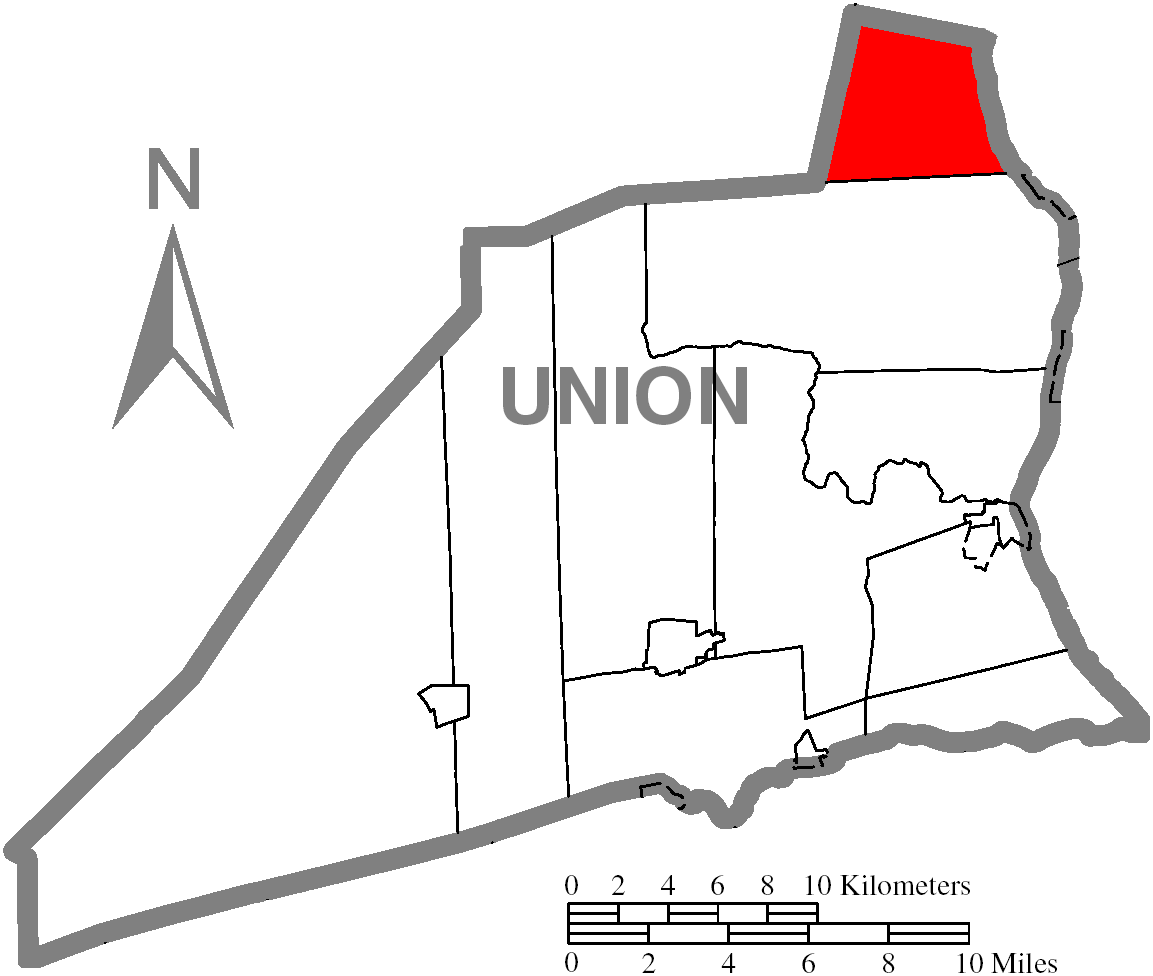 A map of Union County showing Gregg Township, Pennsylvania (alternate) highlighted on the map.